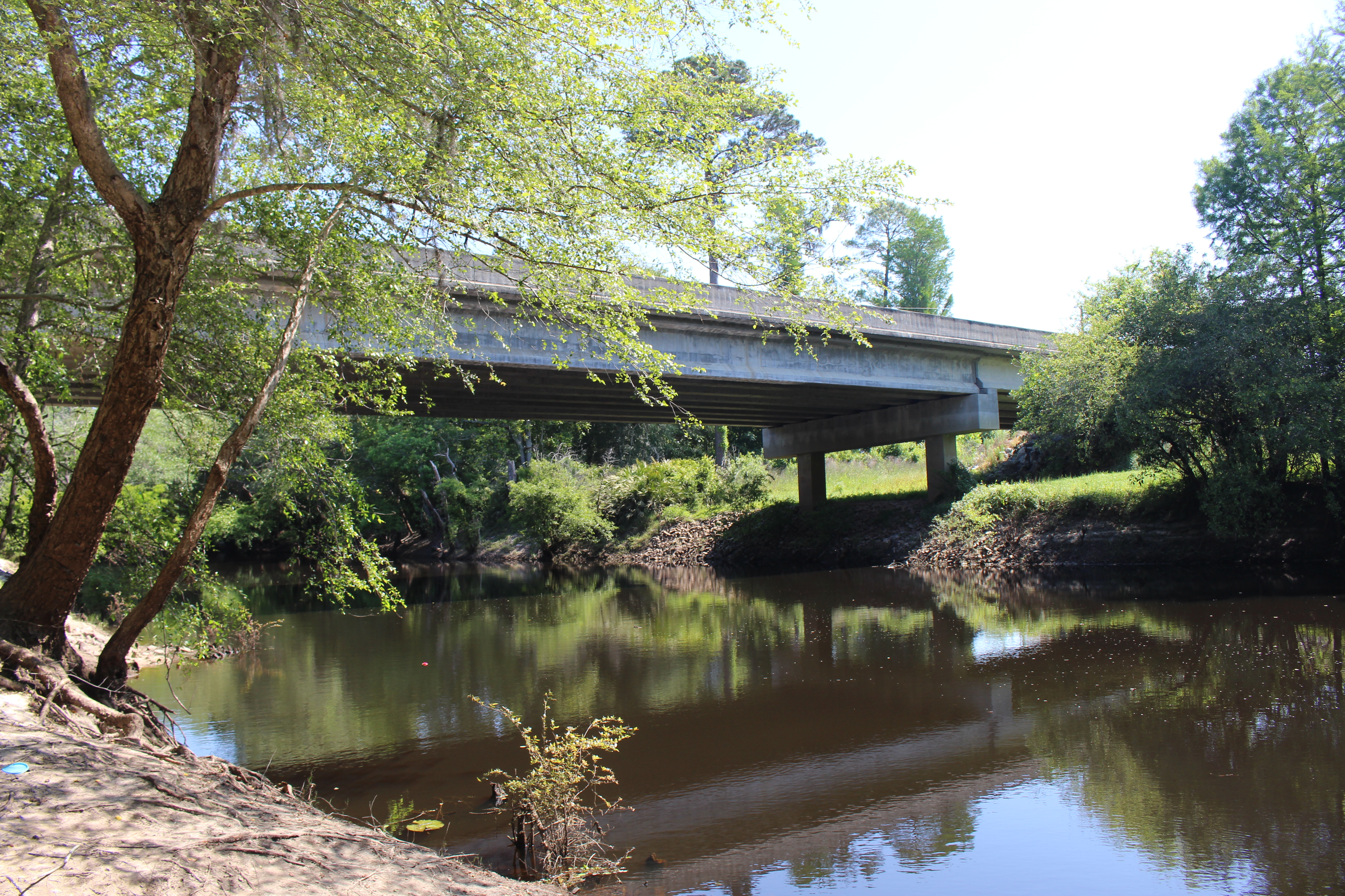 SR37 Bridge over Little River, Cook/Colquitt County, Georgia